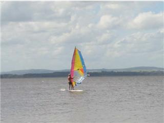 a guy practicing Windsurf on the Laguna del Sauce